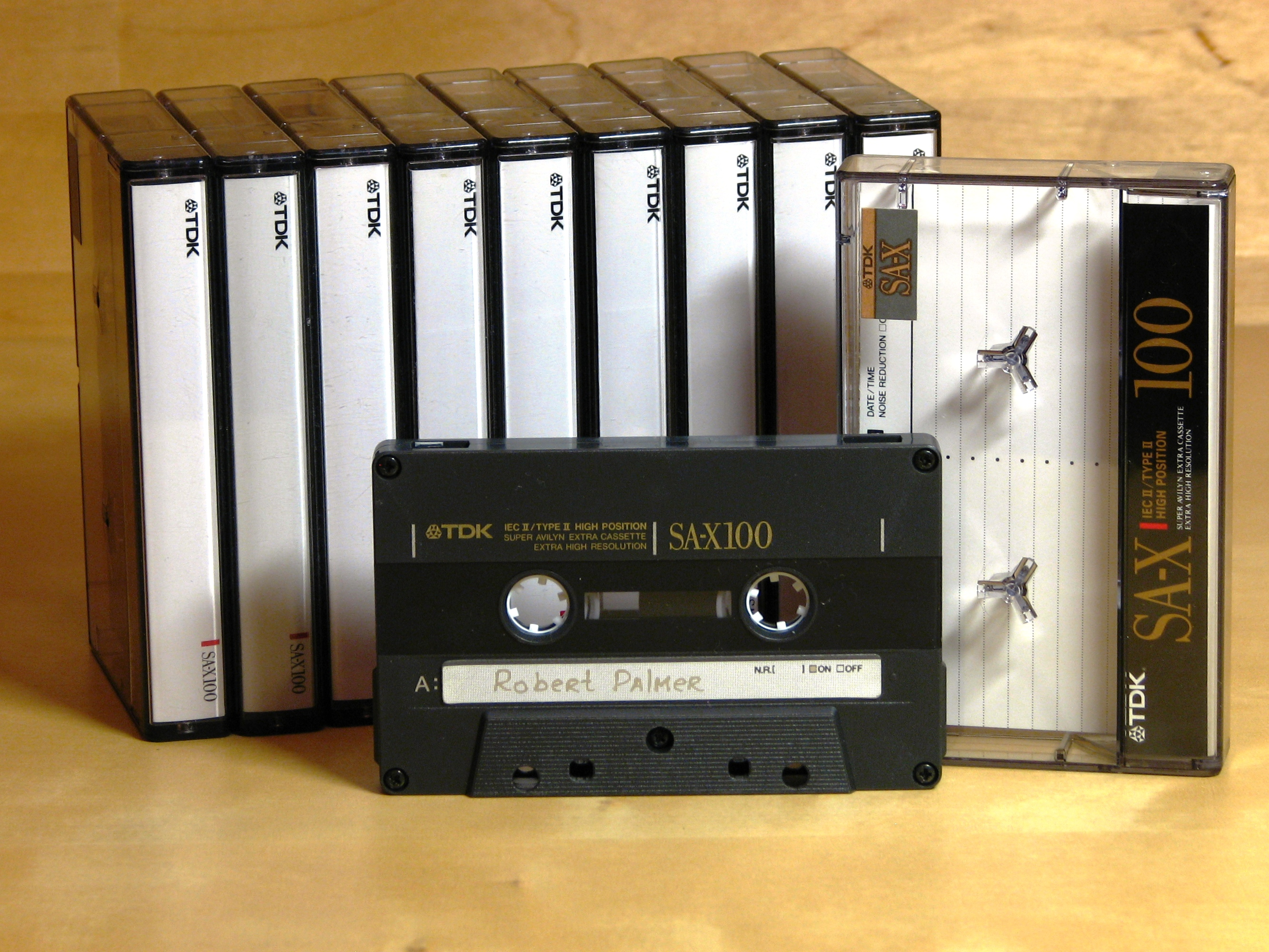 Audiocassettes TDK SA-X 100. Playing time 100 minutes. Tape type II. Made in Japan. Design the mid 1990s.